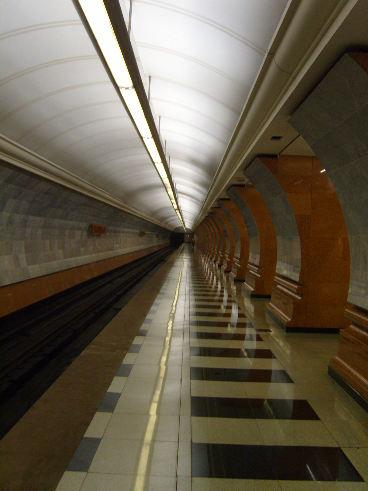 Noused way on the Moscow subway st. "Park Pobedy"